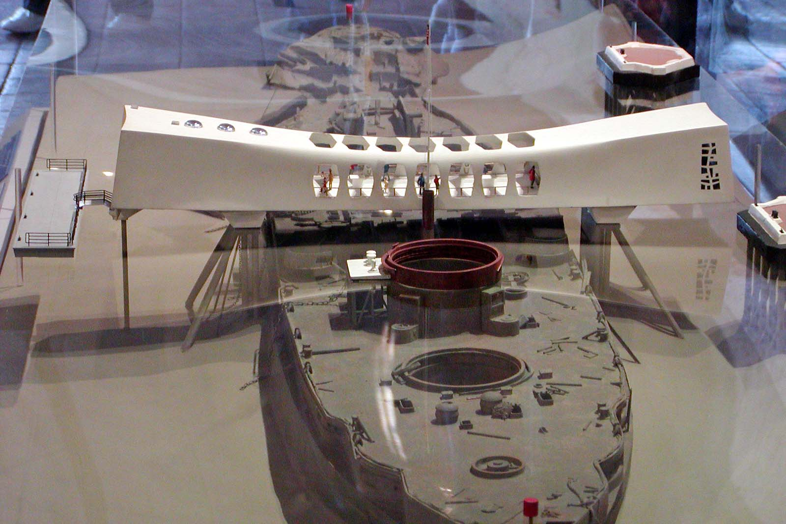 Photo of model of Arizona Memorial